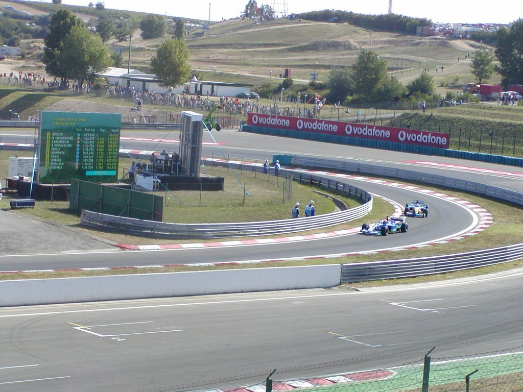 Sauber and Renault entering pits at the 2003 Hungarian Grand Prix.